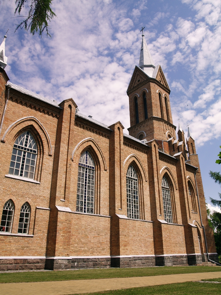 Birštono Šv. Antano Paduviečio bažnyčia